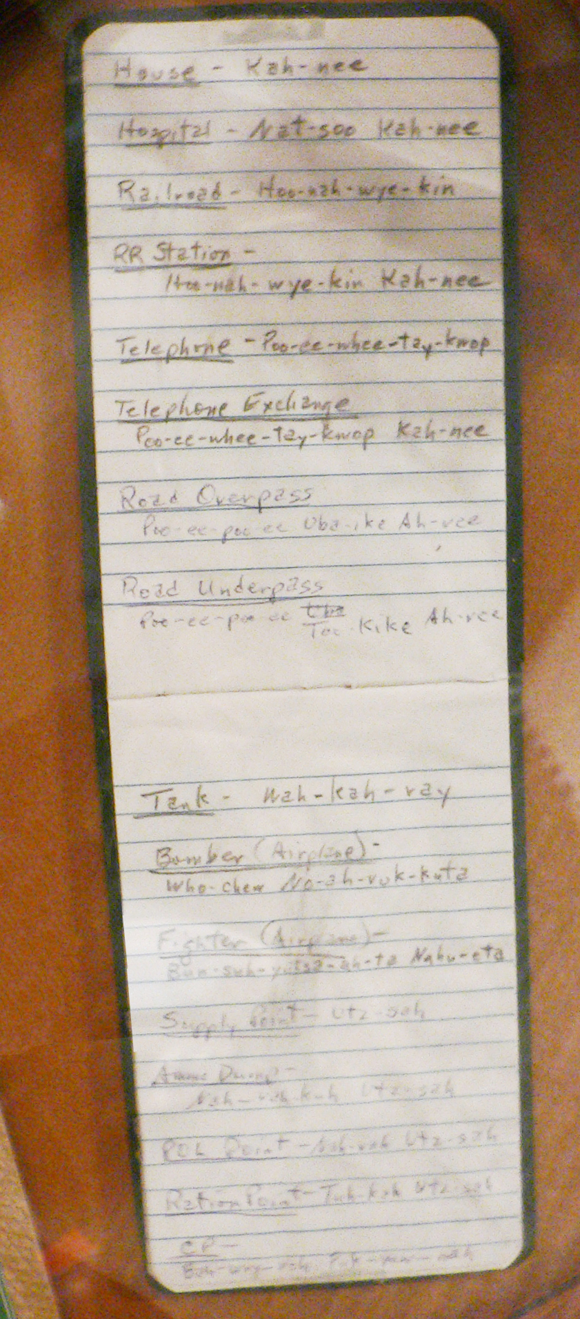 Pictures taken by myself at the US National Cryptologic Museum.